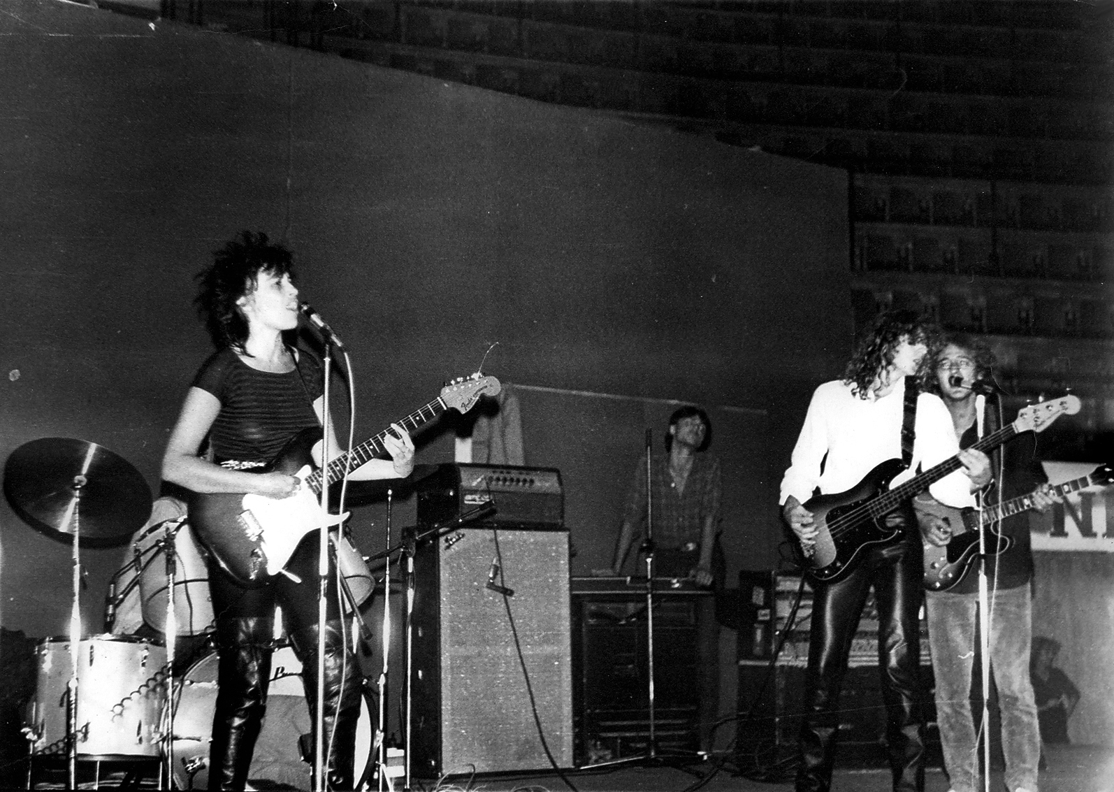 Slađana Milošević at a concert at the Čair Hall in Niš, 80s